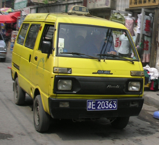 FAW Huali Dafa taxi in Tianjin (license built Daihatsu Hijet) Camera: Konica Minolta DiMAGE Xg License on Flickr (2011-01-11): CC-BY-SA-2.0